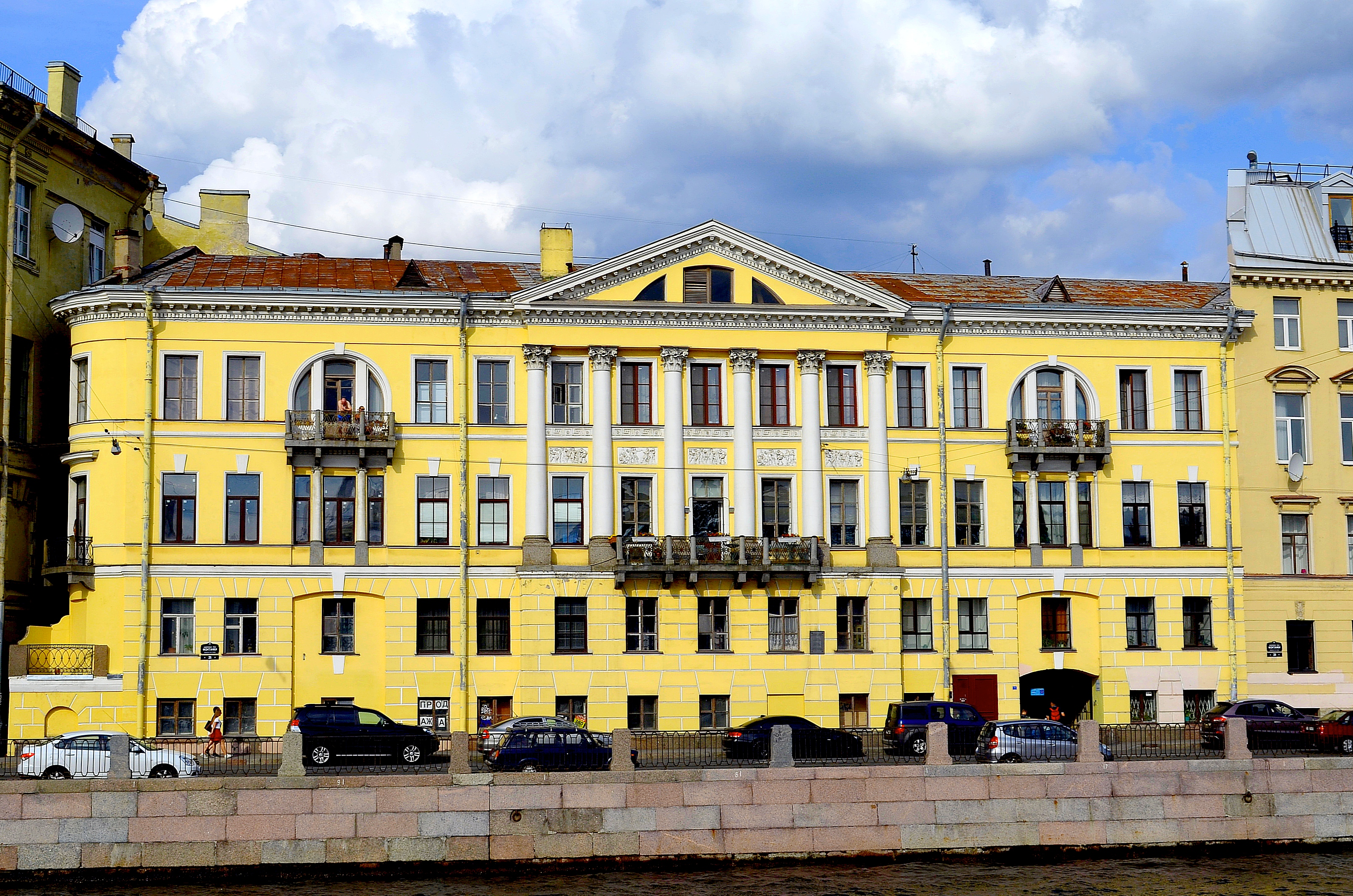 St. Petersburg. Fontanka River Embankment, 26 House Mizhueva. 1804-1806 years.